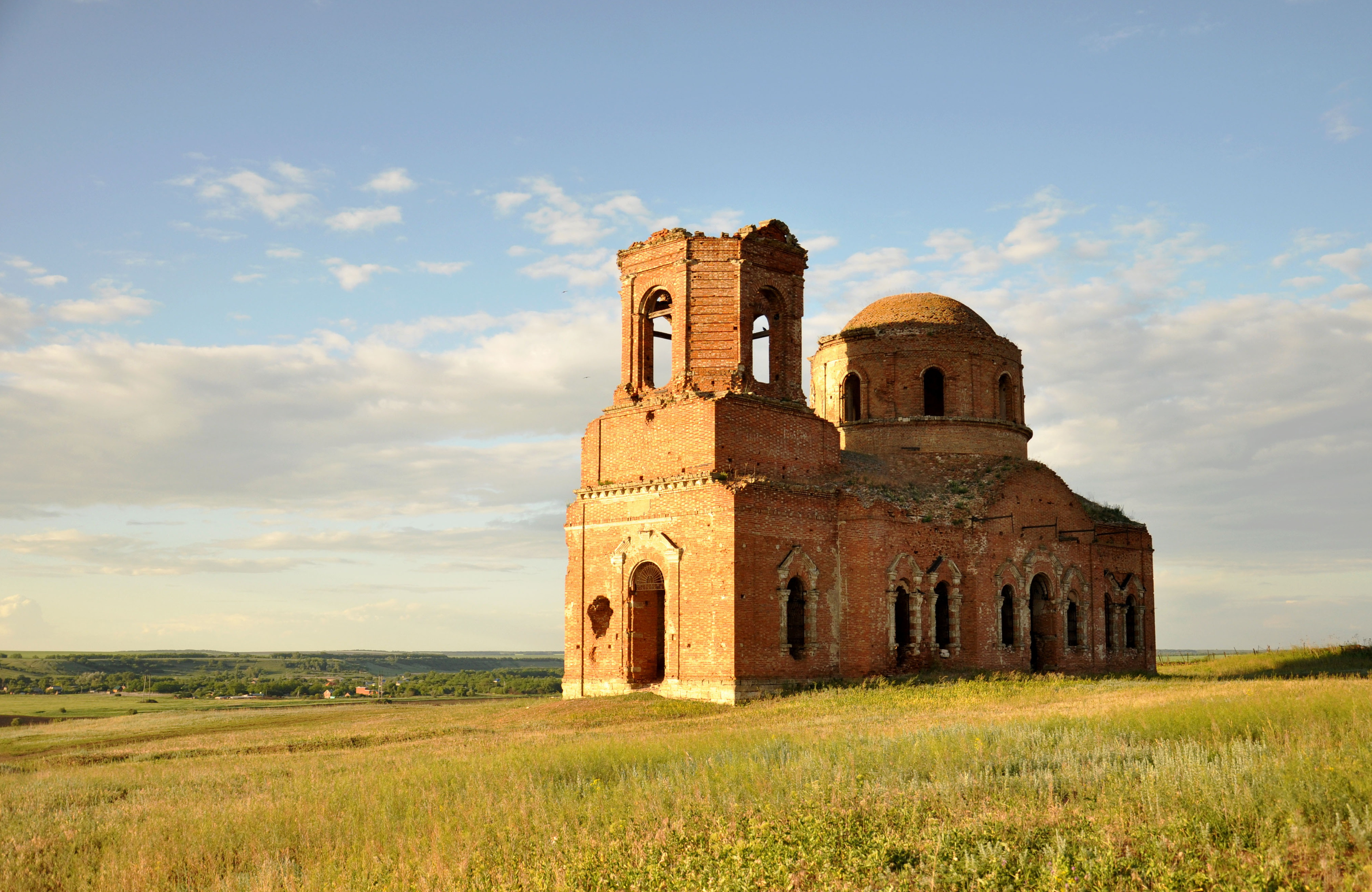 Church of Surp Garabed (St. Garabed, John the Baptist) in the village Nesvetay, Myasnikovsky District, Rostov Oblast, Russia. Built in 1892, designed by architect N. Muratov